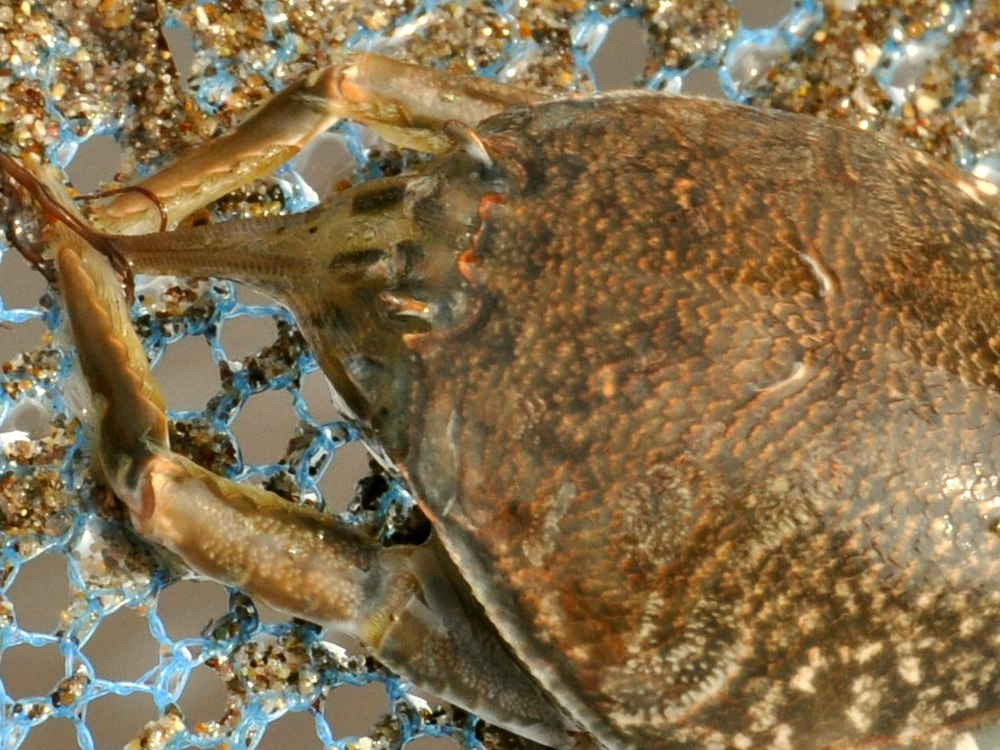 Hippa adactyla; frontal region close up. Palabuhanratu, West Java, Indonesia.